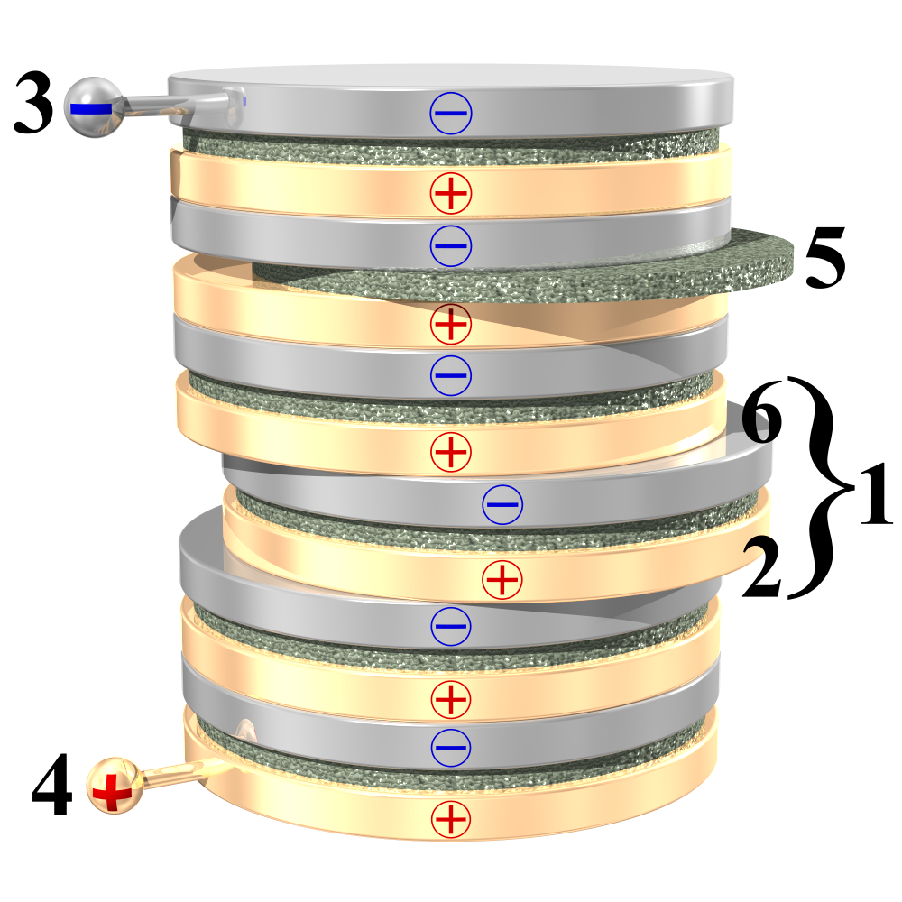 This illustration shows the basic components in a voltaic pile; Metal and "soaked" disks, along with common terminals to the entire pile, and annotations. The numbers in the picture refers to: One element Copper disc Negative terminal for the entire pile Positive terminal for the entire pile Soaked disc of cardboard or leather, with acidic og alkaline solution. Zinc disc Created using the Persistence of Vision Raytracer, and the image description below. Note that this code assumes a "square" image format; i.e. width and height the same physical length. To render, the POV-Ray installation needs to have access to the "timesbd.ttf" TrueType font (Times New Roman in boldface), since this font is used for the annotations.